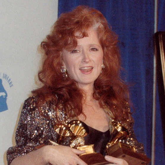 Bonnie Raitt at 1990 Grammy awards. Crop of Image:Bonnie Raitt.jpg